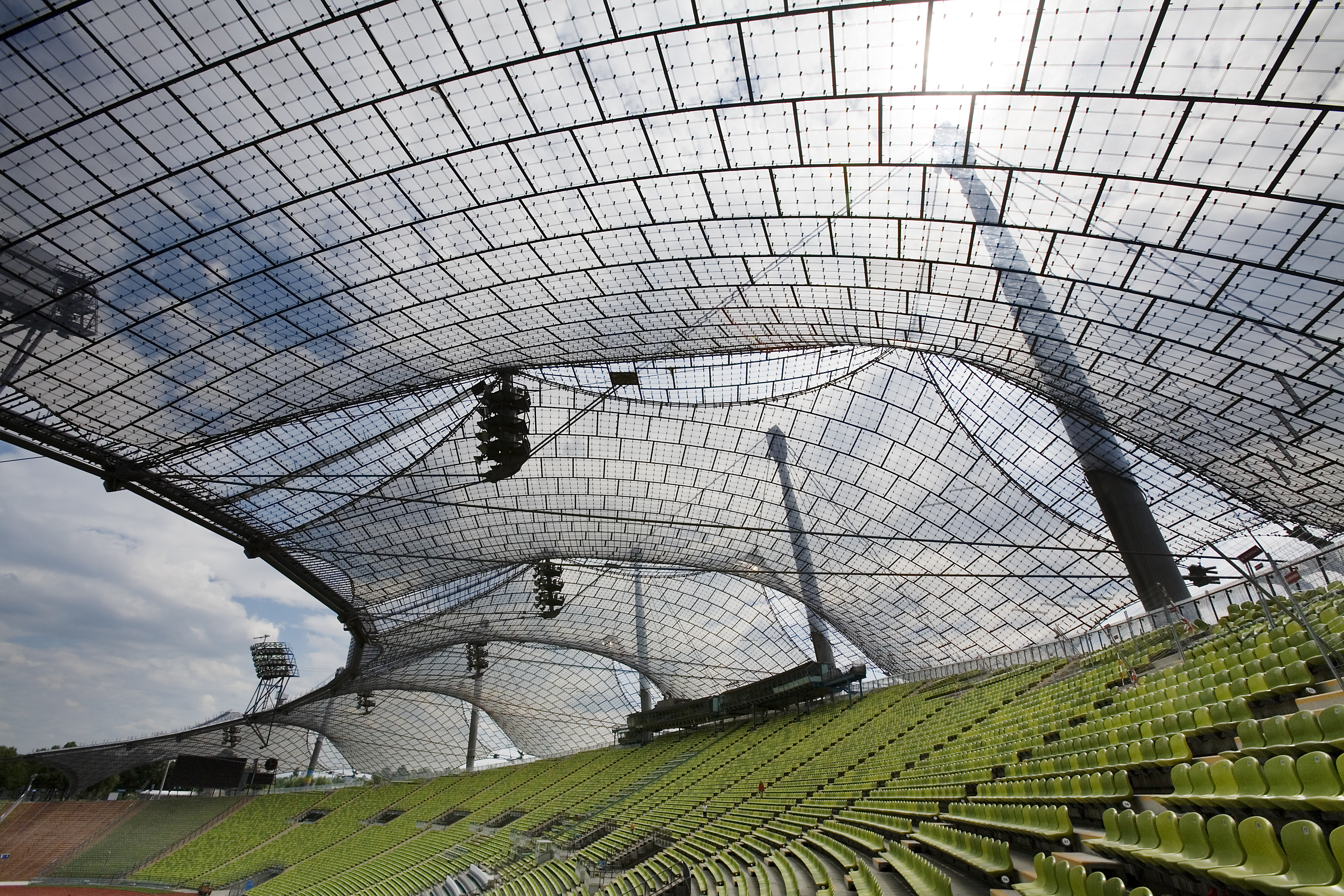 Frei Otto Tensed structures for the Munich 72 Olympic Games. Olympic Stadium and park. Munich Germany